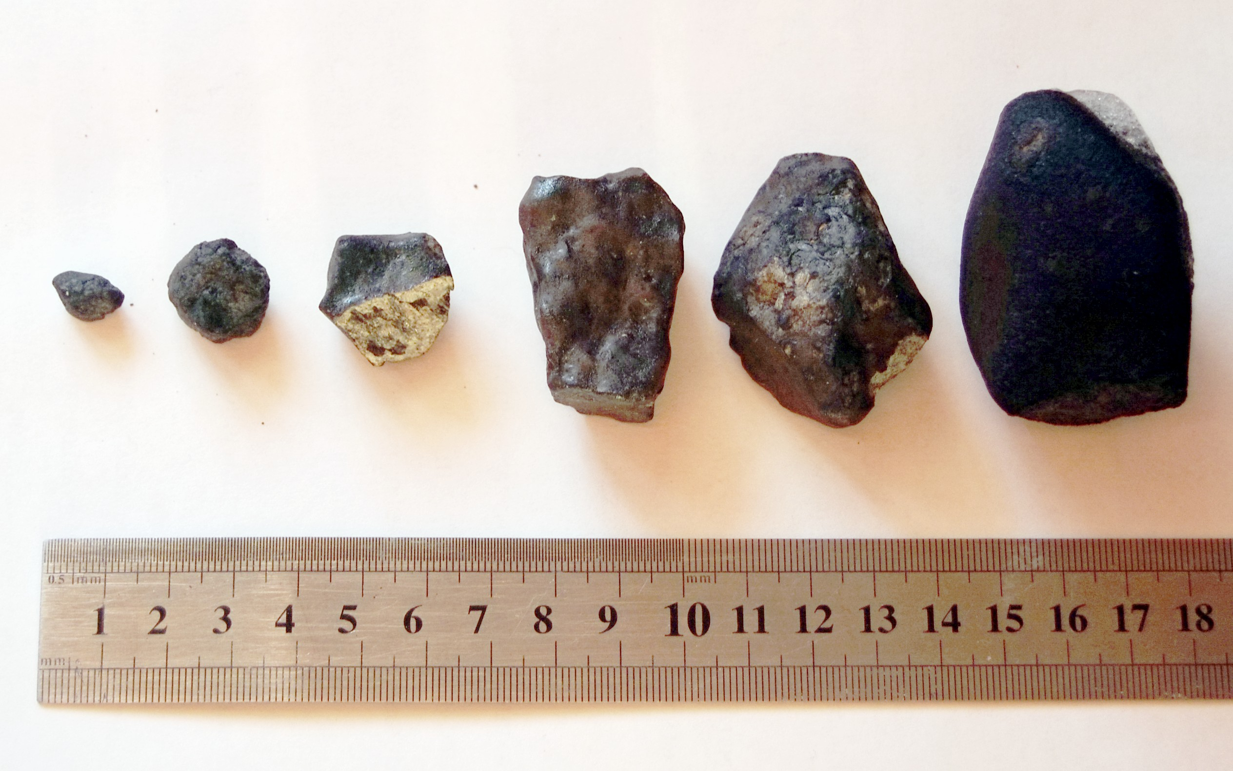 Parts of meteor which flied over Chelyabinsk oblast (region), Russia at February 15, 2013. Parts found in Yetkulsky district of Chelyabinsk region by expedition of Chelyabinsk state university.